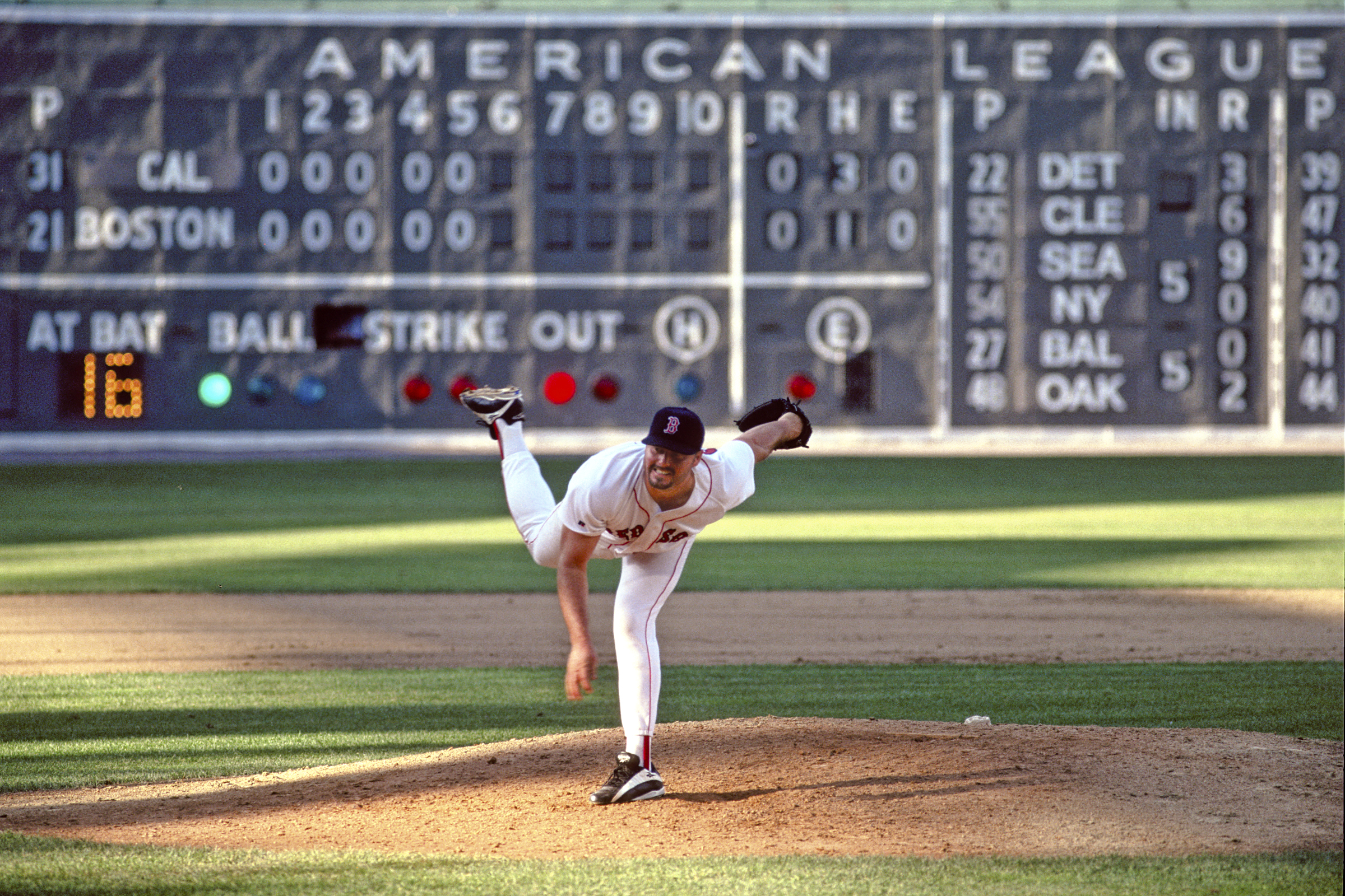 Taken @ Fenway Park on 8/17/1996. The first three images are a sequence of the same pitch. In the fourth image, I combined the sequence in the same image.